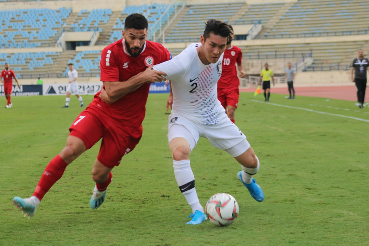 Lebanon v South Korea at the 2022 FIFA World Cup qualifiers.